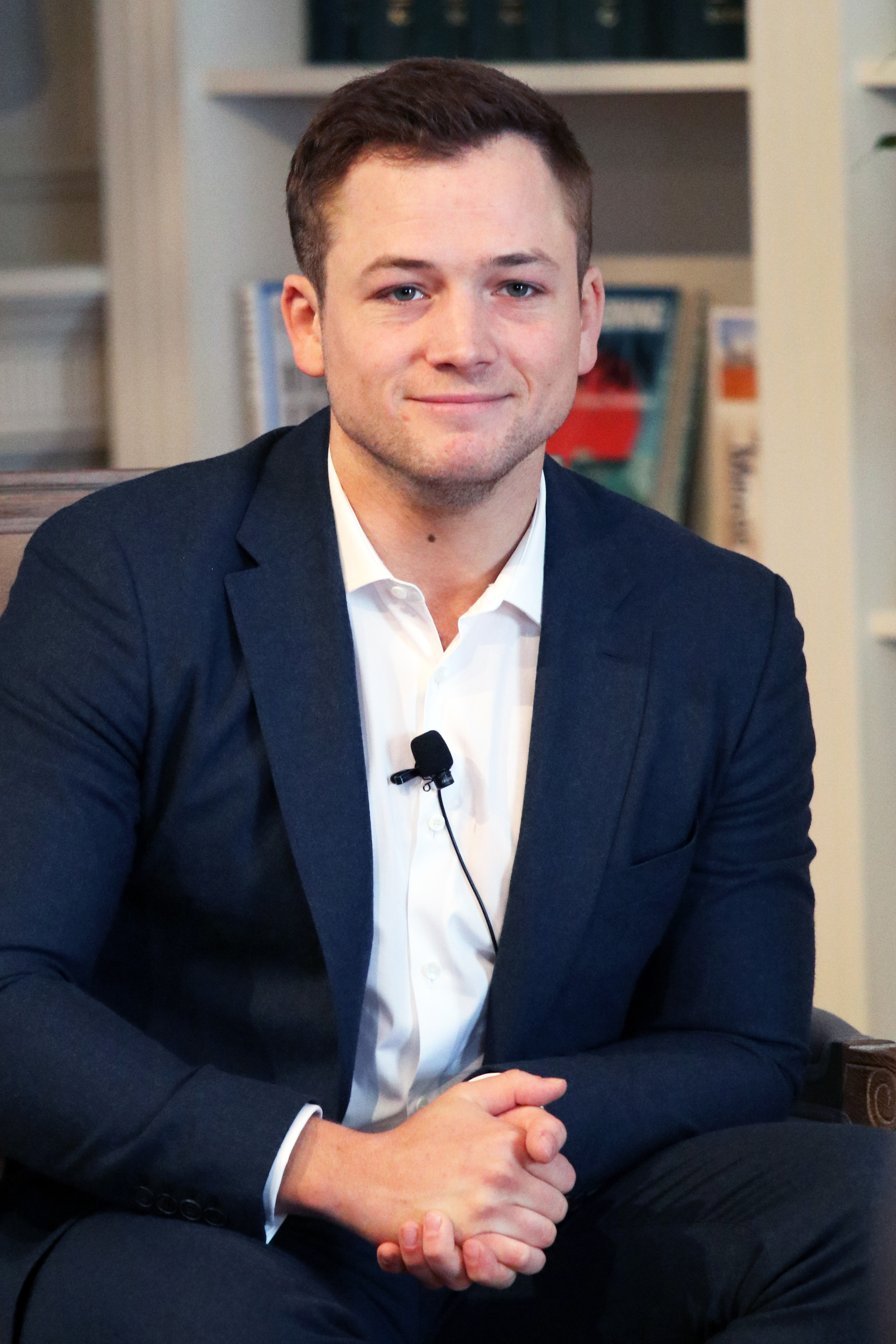 Taron Egerton at the 2018 Global Education and Skills Forum in Dubai